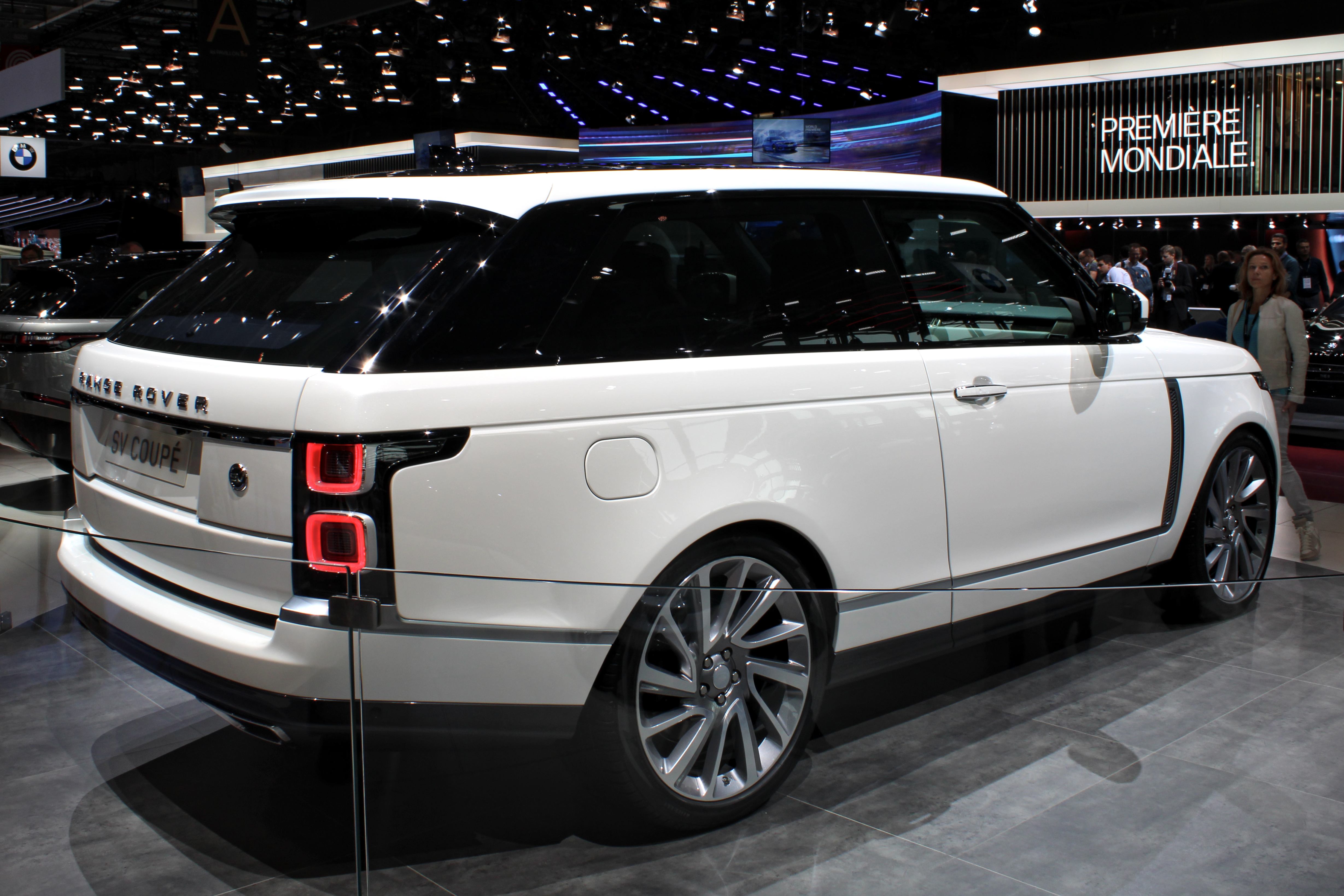 Range Rover SV Coupe at Paris Motor Show 2018